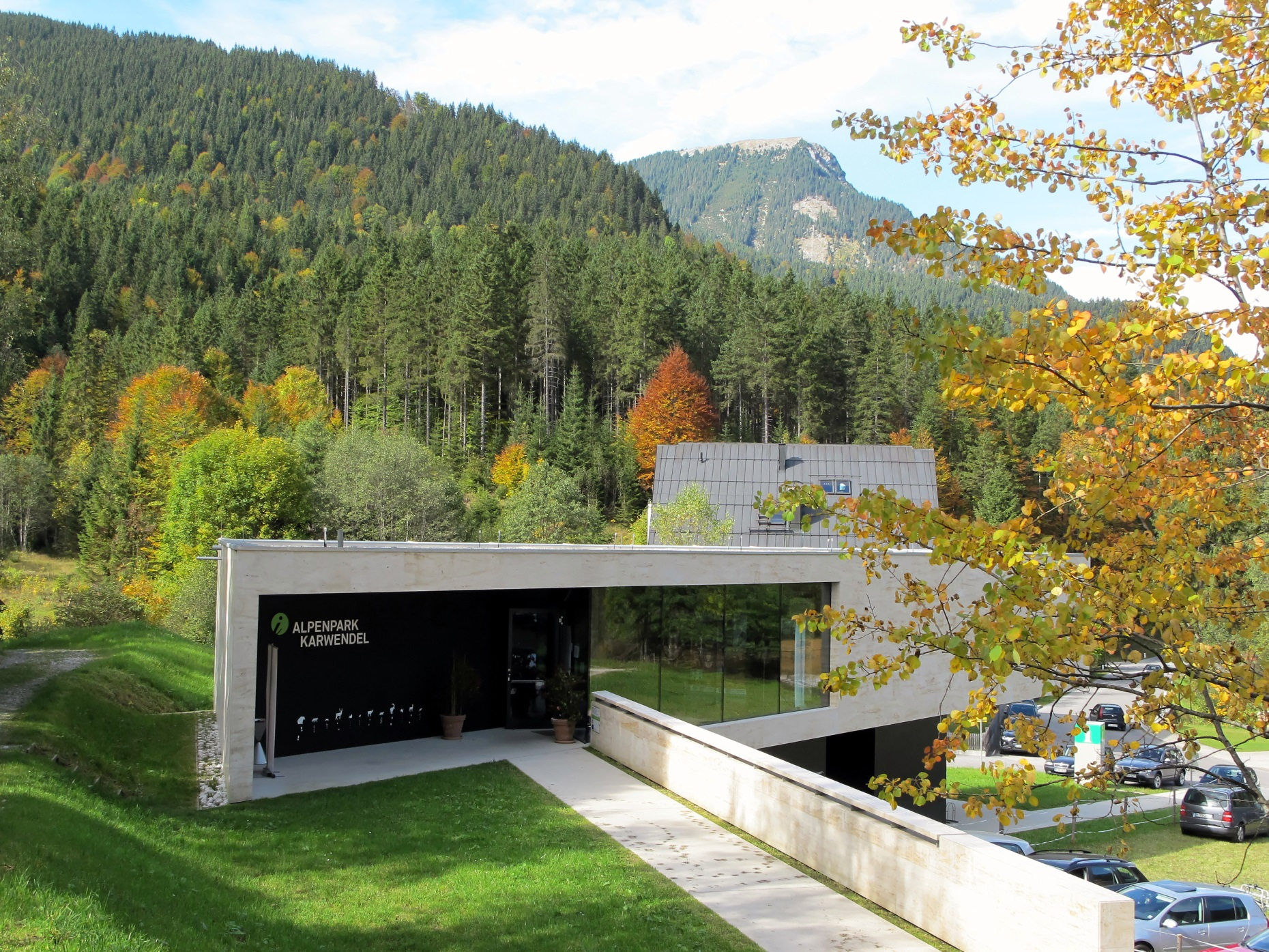 Village of Hinterriß, Tourist Information "Alpenpark Karwendel"